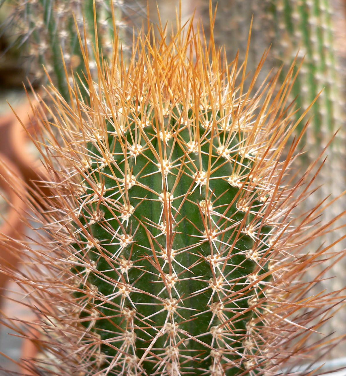 Photo of Jasminocereus galapagensis at the University of California Botanical Garden